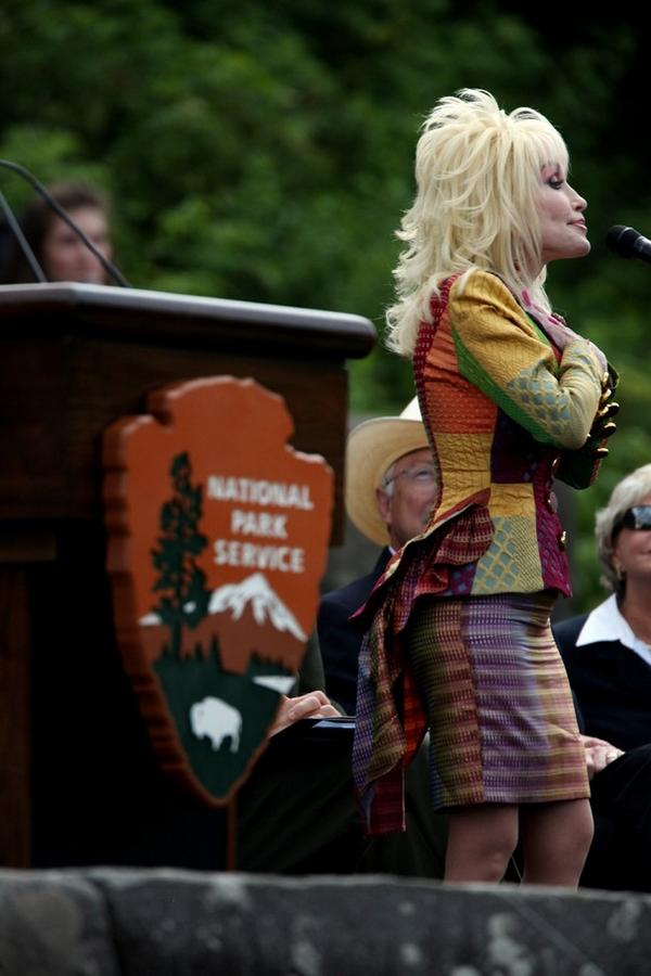 Dolly Parton at the Great Smoky Mountains National Park